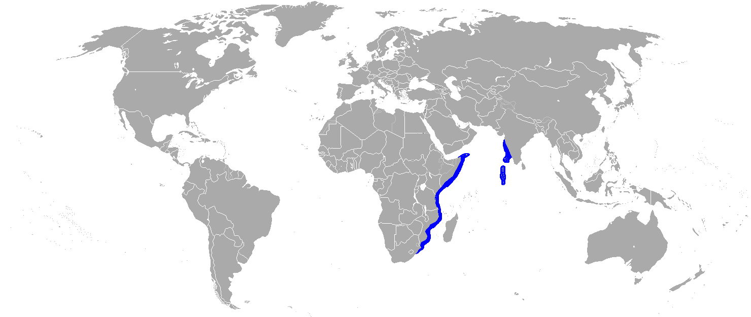 Distribution of the comb flounder, Marleyella bicolorata, using a blank map of the world showing 2008 borders. Based on File:BlankMap-World.png; as it is PD, this is too.